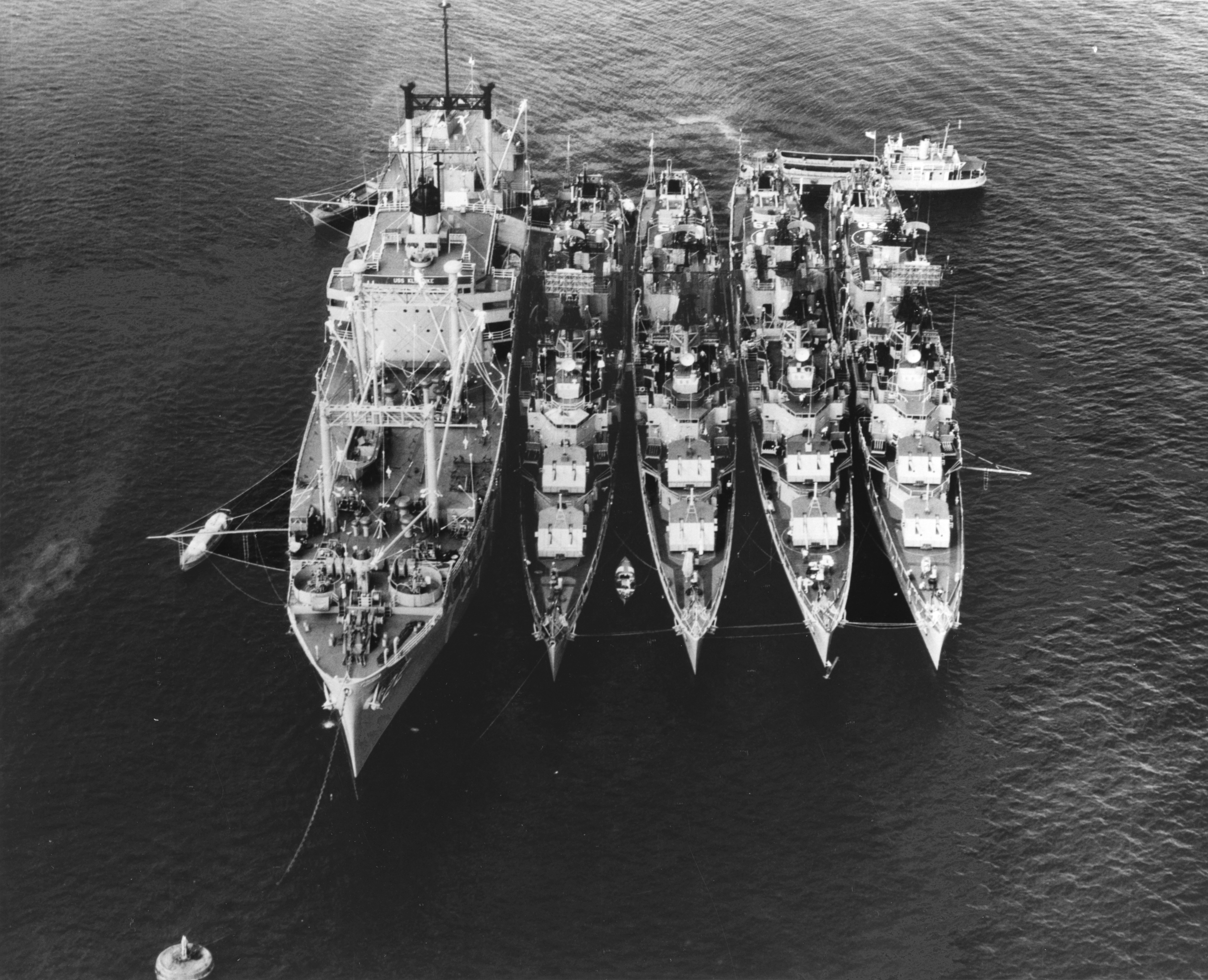 The U.S. Navy repair ship USS Klondike (AR-22) in Subic Bay, Philippines, on 1 November 1963. The destroyers alongside, all "FRAM II" types of Destroyer Squadron 15, are: (from inboard to outboard): USS Taussig (DD-746); USS John A. Bole (DD-755); USS Lofberg (DD-759); and USS John W. Thomason (DD-760).